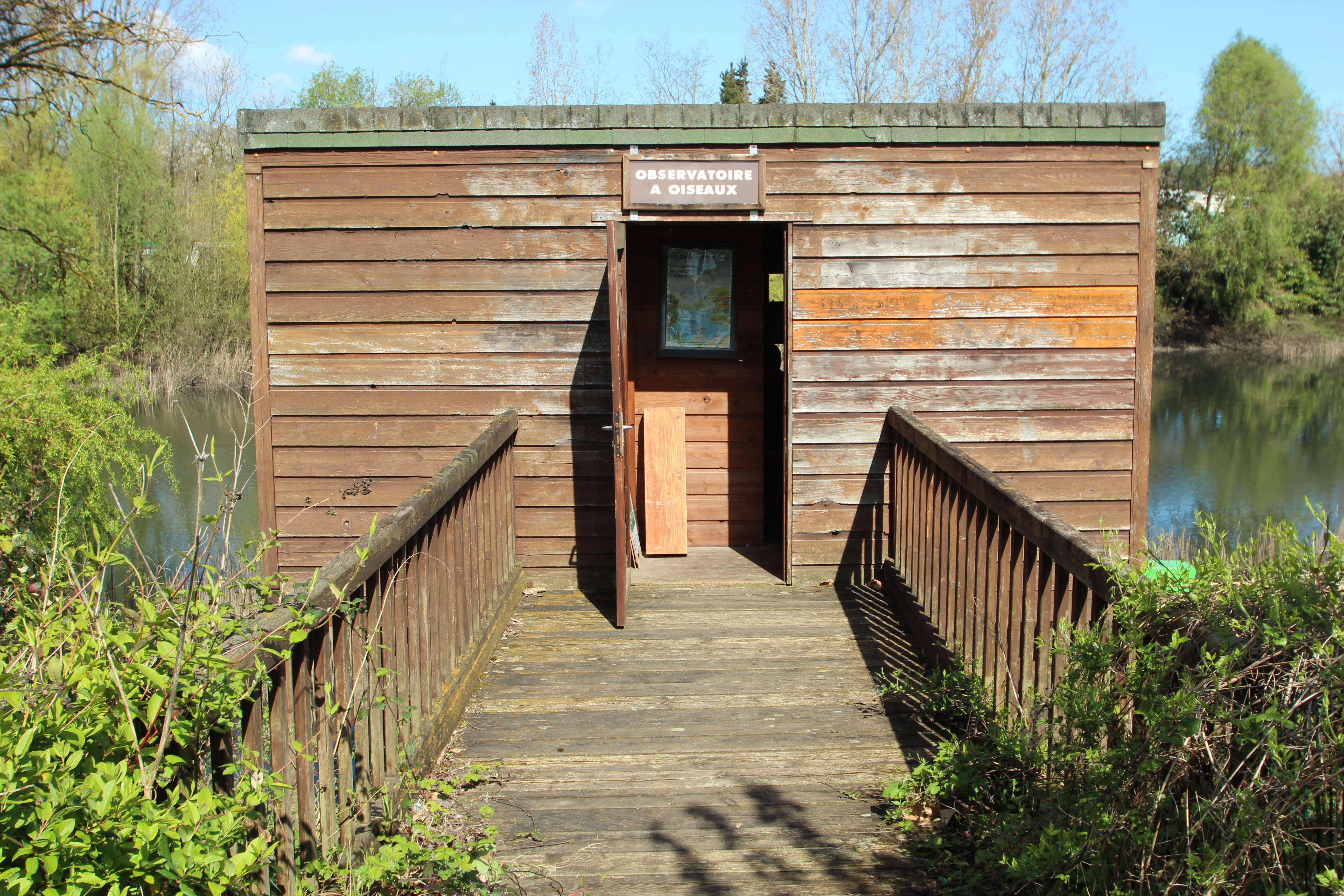 Regional natural reserve of the Bièvre basin (in french "Réserve naturelle régionale du bassin de la Bièvre") in Antony, Hauts-de-Seine and Verrières-le-Buisson, France.